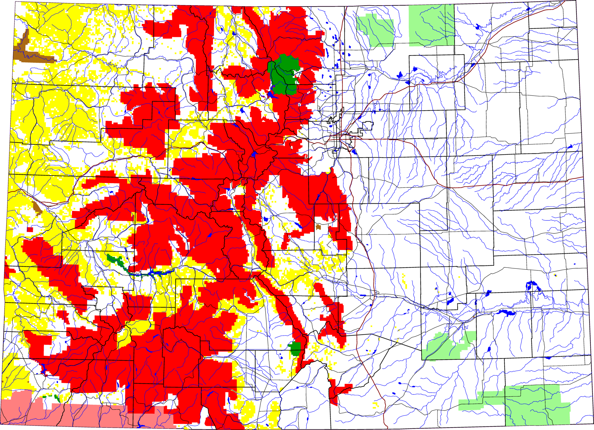 A map of Colorado, with U.S. National Forests highlighted in red. The light green is other Forest Service land (National Grassland), yellow is BLM land, dark green is National Park, brown is National Monument or National Historic Site, pink is Indian reservation. The reddish lines are Interstate Highways. David Benbennick made this map with data from . The map uses the azimuthal equidistant projection, centered on (-105.7167, 39.1333) (degrees latitude, longitude). The area outside Colorado is transparent, so it should look nice on non-white backgrounds. Eventually, I will upload the 4 megabyte Metapost script I used to make this map. In the mean time, see map.mp.